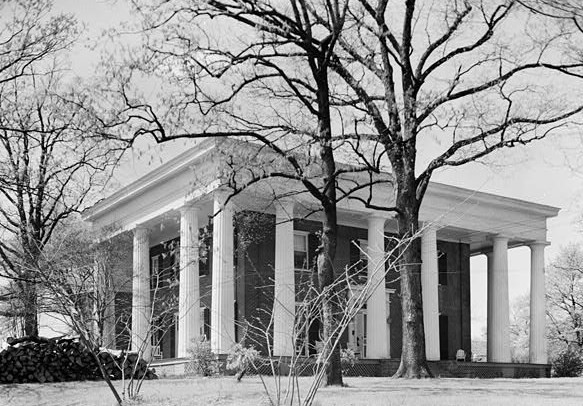 Dearing House, Athens (Clarke County, Georgia) Cropped